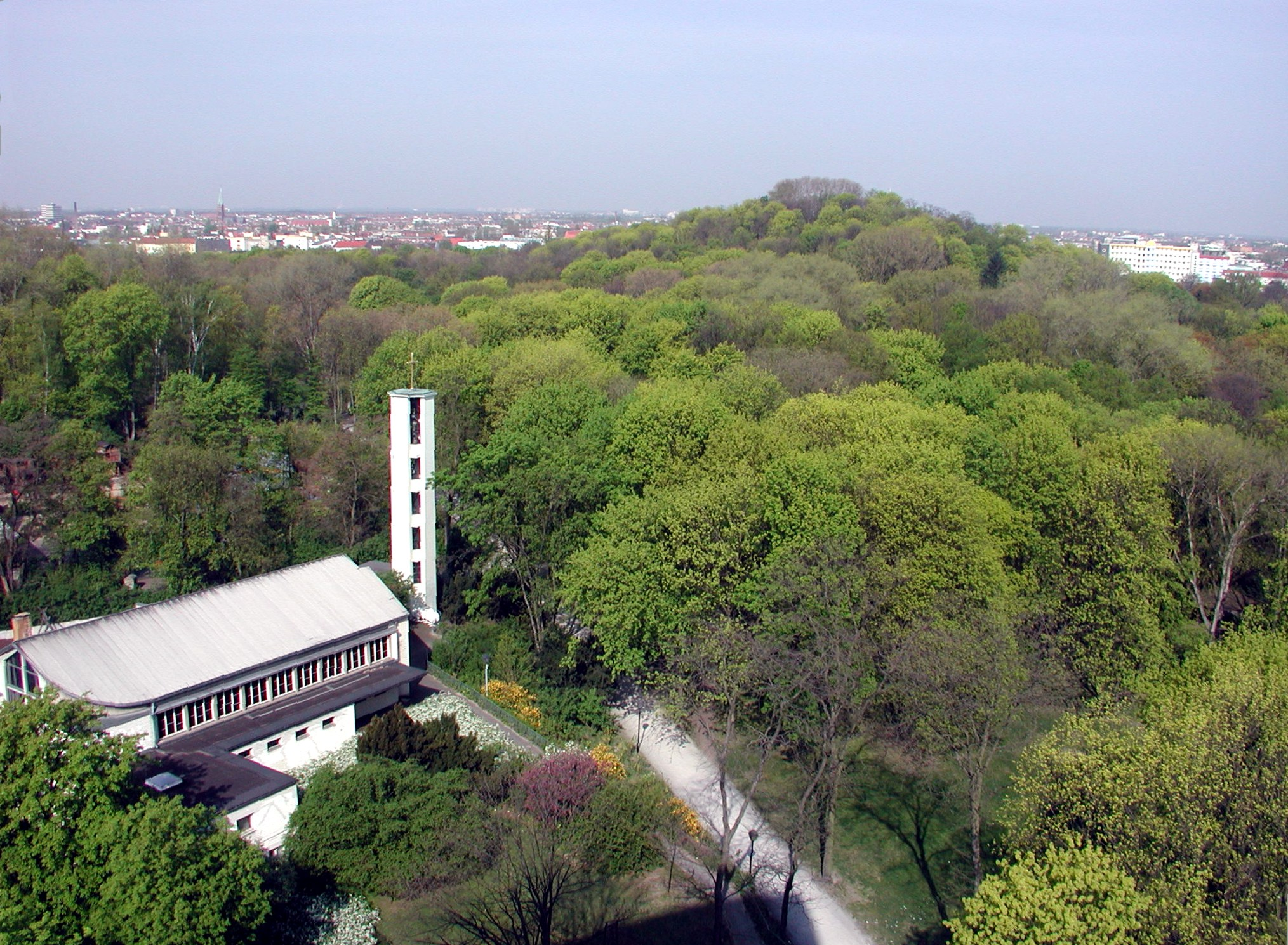 The Park of Humboldthain, with Humboldthöhe hight and the Ascension of Jesus Church, in Gesundbrunnen, Berlin, Germany. The Ascension Church is owned and used by a congregation within the Evangelical Church of Berlin-Brandenburg-Silesian Upper Lusatia, a united Protestant church body of Calvinist, Lutheran and united congregations. The church building is also used by way of rent contract as a simultaneum with the Syriac Orthodox congregation of St. Izozoel, which consecrated the church to that Saint.